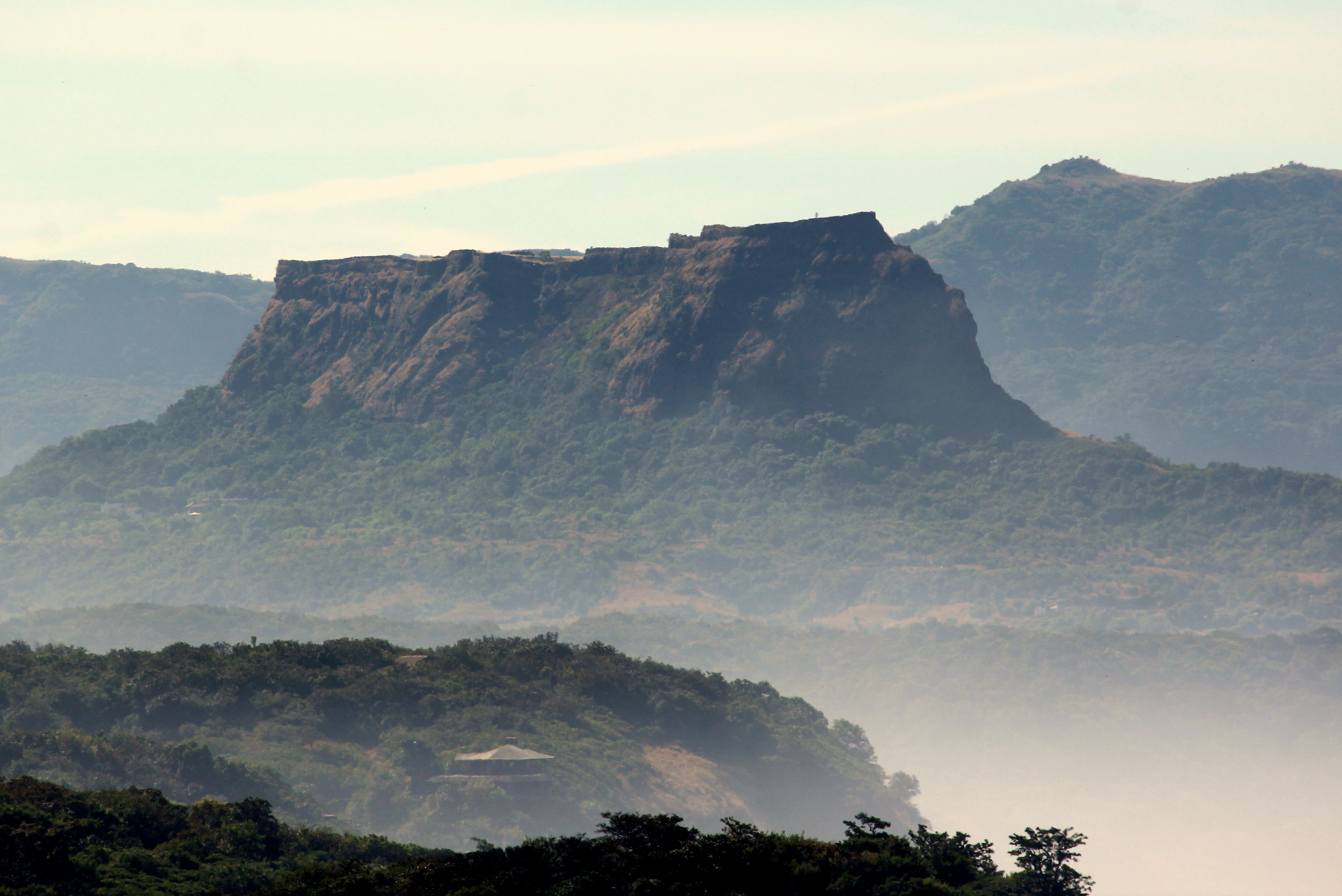 Korigad, a hill fort, as seen from Lion's Point, Lonavla, Maharashtra.